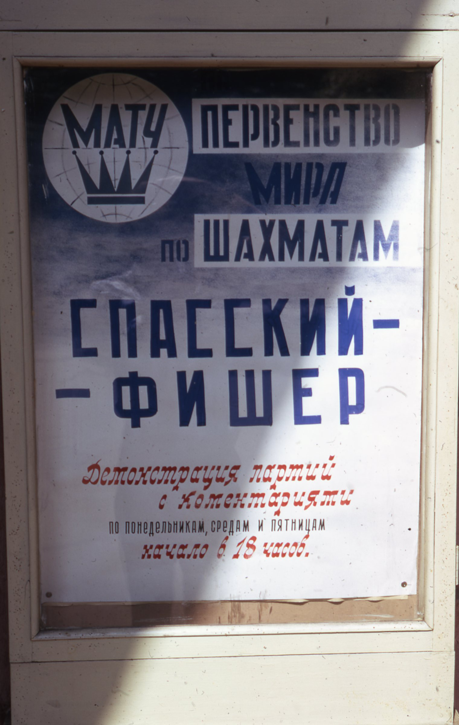 These images were taken by Thomas T. Hammond during his trip to the Soviet Union. This photo features an advertisement for chess matches, which occur every Monday, Wednesday and Friday. "World Champions in Chess."